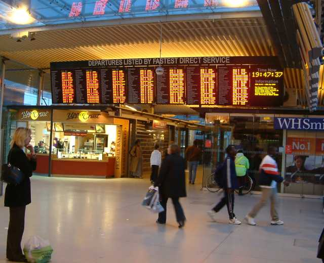 East Croydon railway station - England - Electronic Information Board in the Concourse - - Photo by Tagishsimon - 270404